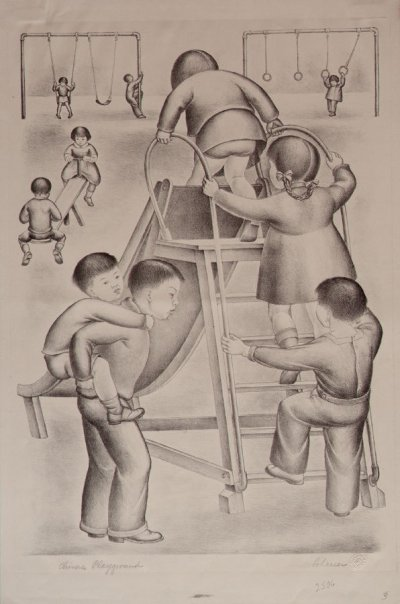 One of the pencil sketches made by Suzanne Scheuer of children playing at the San Francisco Chinatown Playground